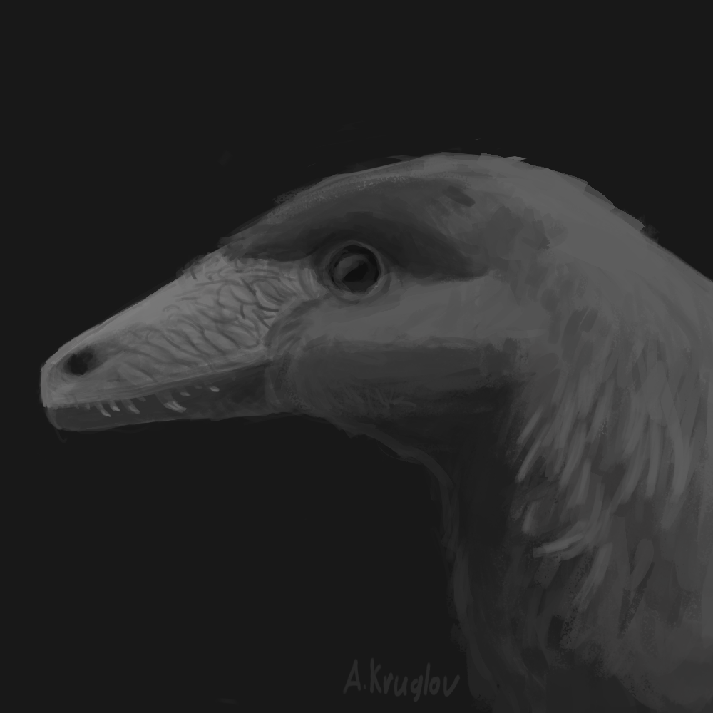 A side view portrait of Hesperornithoides